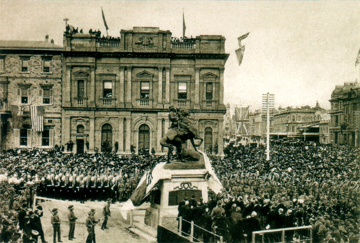 The unveiling ceremony for the South African War Memorial (at the time referred to as the National War Memorial) in Adelaide, South Australia on the 6th of June, 1904.